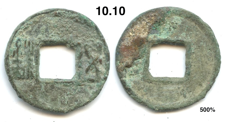 WU ZHU - EASTERN HAN & LATER FROM AD 25 PHOTO H# DESCRIPTION DETAILS PRICE 10.10 Wu Zhu: Full rims Small coin with full inner and outer rims both sides. Kingdom of Shu, 221-263, Szechuan (not Gansu). 21.50mm, 2.14gm. S224 F, very crusty $ 30.00 10.18 Wu Zhu, iron Outer & inner rims both sides, long dashes at corners reverse. Avg. 19-21mm, 3gm. Liang Dynasty, 523 AD S232 SAMPLES shown. Vg $19.50; Fine $ 27.50 10.25W Wu Zhu: Right Rim, Bulk Western Wei Dynasty, late issues of Emp. Wen, ca. 547 AD. Mixed sizes & weight from an uncirculated hoard, slightly crusty with red & green patina. SAMPLE LOT shown. Per-10 pieces: $ 30.00 10.26 Wu Zhu: Right Rim Type: Zhu head straightt, hour glass wu. Called the White Coin for the silvery quality of the metal. Sui Dynasty, late issues of Emp. Wen, ca. 547 AD. 23.5mm, 2.88gm. EF $ 50.00 10.27 Wu Zhu: Outer ring Thread ring, or Yan Huan. Late Eastern Han. S304, 305 SAMPLES shown: Brown VF (cleaned & retoned) $12; Green VF (fairly even patina, sharp characters) $ 12.00 10.29 Wu Zhu: Tiny, sharp Tiny, well-made with deep fields. Western Han Dynasty, Emp. Wu Di Distinctive type, a burial coin according to Roger Doo. 12mm, avg. 0.63gm. S208-210 FD597, S208-210 shown: F-VF, crusty $5.00; Hoard EF-UC chalky gray, or brown EF $ 15.00 10.32 Wu Zhu Eastern Han, Dot above hole, note Zhu is slightly larger than the hole, distinguishing from W. Han issues. S260 Hoard, probably as-made, but look Fine. Cleaned. Samples shown. ($4 each per 5+) $ 6.50 10.33 Wu Zhu: Corner lines "Four horns," short strokes at obverse corners. S178a SAMPLES shown: EF, crusty $19.50; VF, grn/brn $21.50; EF, brown $ 26.50 10.49 Qiuzi Wuzhu FD-nl, S-nl, HG190/3, XN67a F+, green $ 225.00 10.72 Wu Zhu: control marks Middle E. Han, dash below Zhu, "eleven" rev. L. Control marks for licensed feudal mint. F $ 40.00 10.75B Wu Zhu: control marks Middle E. Han, two dots above hole, control devices of a licensed feudal mint. F+, crusty $ 25.00.